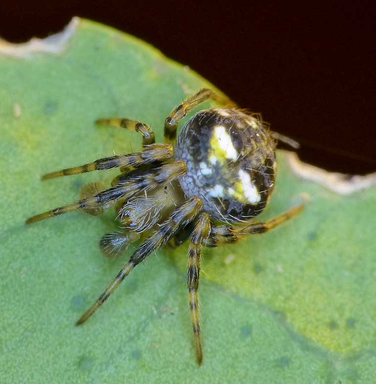 Araneus albotriangulus The white triangles (albo=white, triangulus=triangles) are a distinctive diagnostic feature. they are much more obvious on this male than other females I have seen.